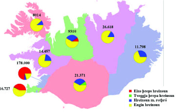 Chart of Iceland